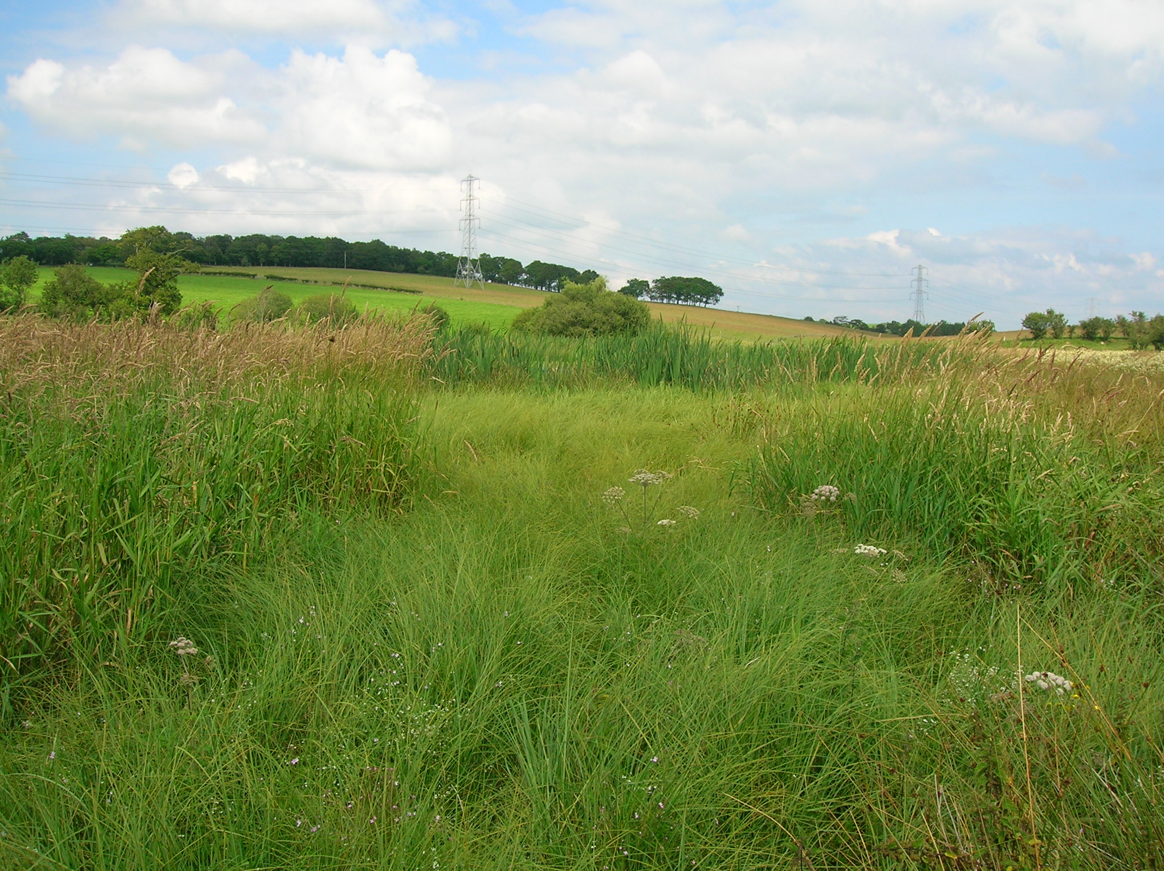 Canary Grass, Sedge, and Flag Iris dominated habitat, Lochend Loch, Joppa, South Ayrshire, Scotland.